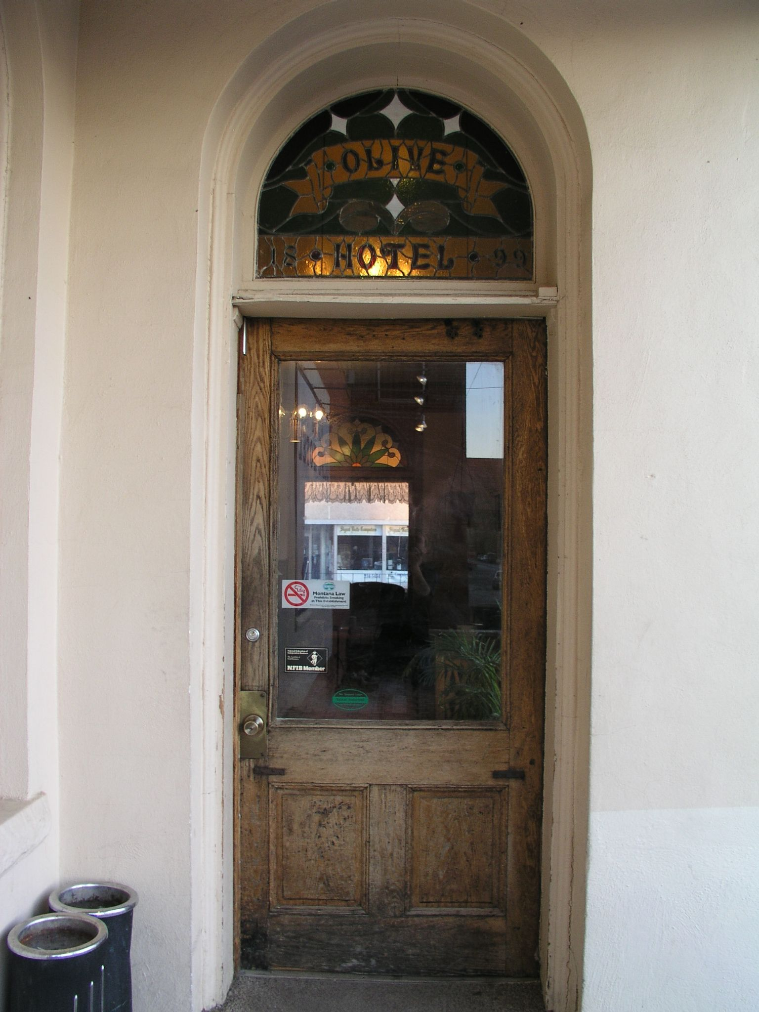 The north entrance to the lobby of the historic Olive Hotel, Miles City, Montana.